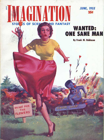 Cover of Imagination, June 1955